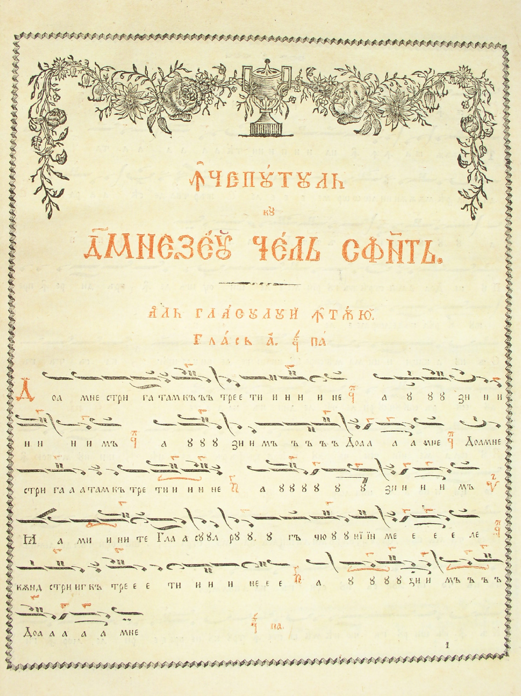 Book of Hymns at the Lord's Resurrection (Romanian: "Anastasimatar bisericesc"), page #11, translated from Greek and printed in Romanian with Cyrillic characters by Macarie the Hieromonk in 1823 in Vienna. It depicts the Byzantine music notation style. Transliteration from Cyrillic to modern Romanian alphabet: ÎNCEPUTUL cu DUMNEZEU CEL SFÂNT al glasului întâiu Glas a. [...] pa Doamne strigatam către Tine / Auzi mă / auzimă Doamne / Doamne strigatam către Tine / auzimă / Ia aminte glasul rugăciunii mele / când strig către Tine / auzimă Doamne. Translation: BEGINNING with THE HOLY GOD first tone tone 1 [...] pa Lord, I have called You / Hear me / hear me Lord / Lord I have called You / hear me / Look towards the voice of my prayer / when I call You / hear me Lord.